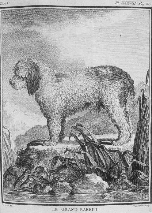 Barbet (dog breed)